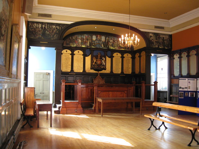 Interior of Bridport Town Hall The ornate display at the end of the hall and on the adjacent walls contain all the names and dates of the past Mayors of the town. To the right of the photographer, suspended from a bracket, is the ships bell belonging to HMS Bridport. She was a Bangor class minesweeper, built at Dumbarton in 1940 and broken up at Plymouth in 1959.